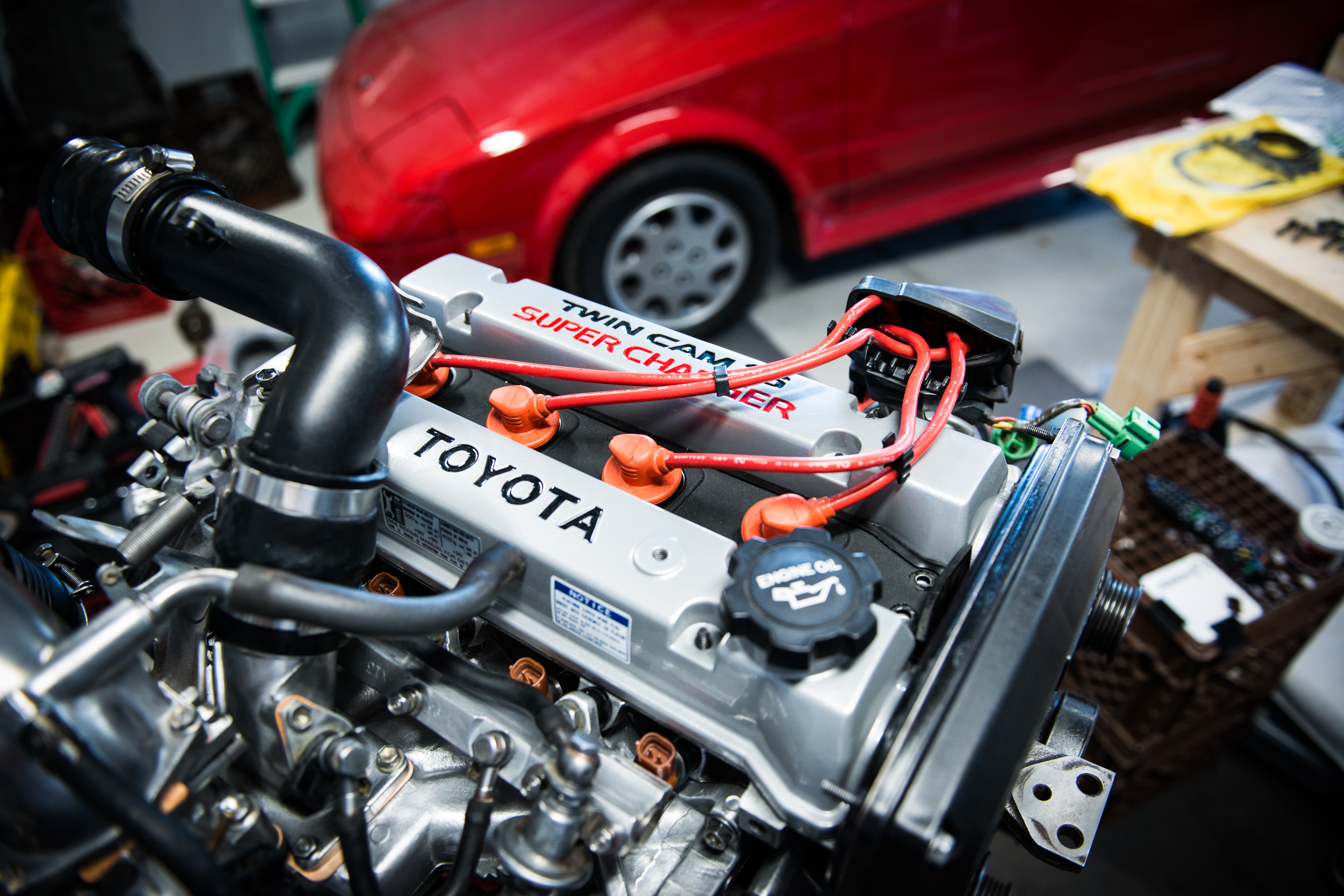 4A-GZE Engine with Valve Covers